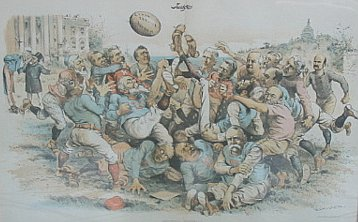 Description: Political cartoon representing President Benjamin Harrison's administration and Congress playing football. Source: Judge magazine Date: 1889 Author